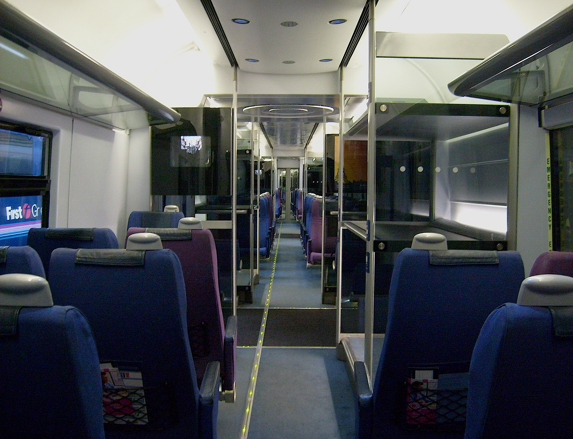 Standard Class interior aboard Heathrow Express Class 332 TSO vehicle